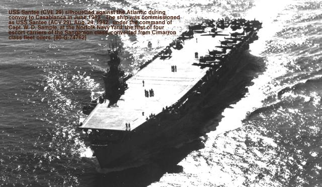 The U.S. Navy escort carrier USS Santee (ACV-29) silhouetted against the Atlantic while escorting convoy UGS-10 to North Africa, June 1943.